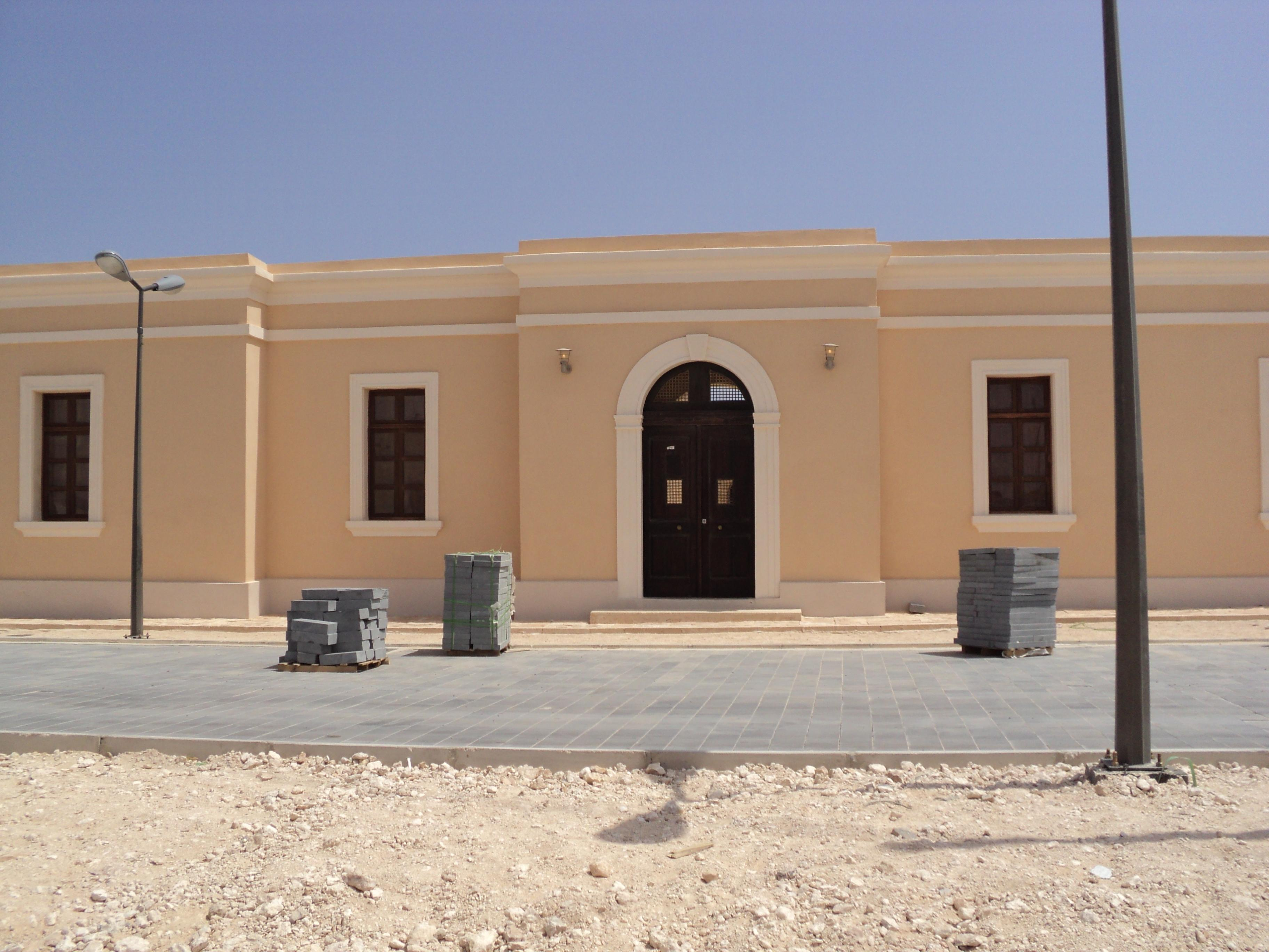 A building in the Libyan village of Bardia.